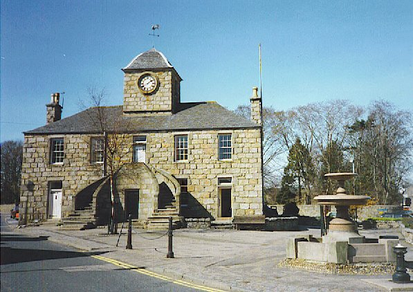 The Town House, Kintore